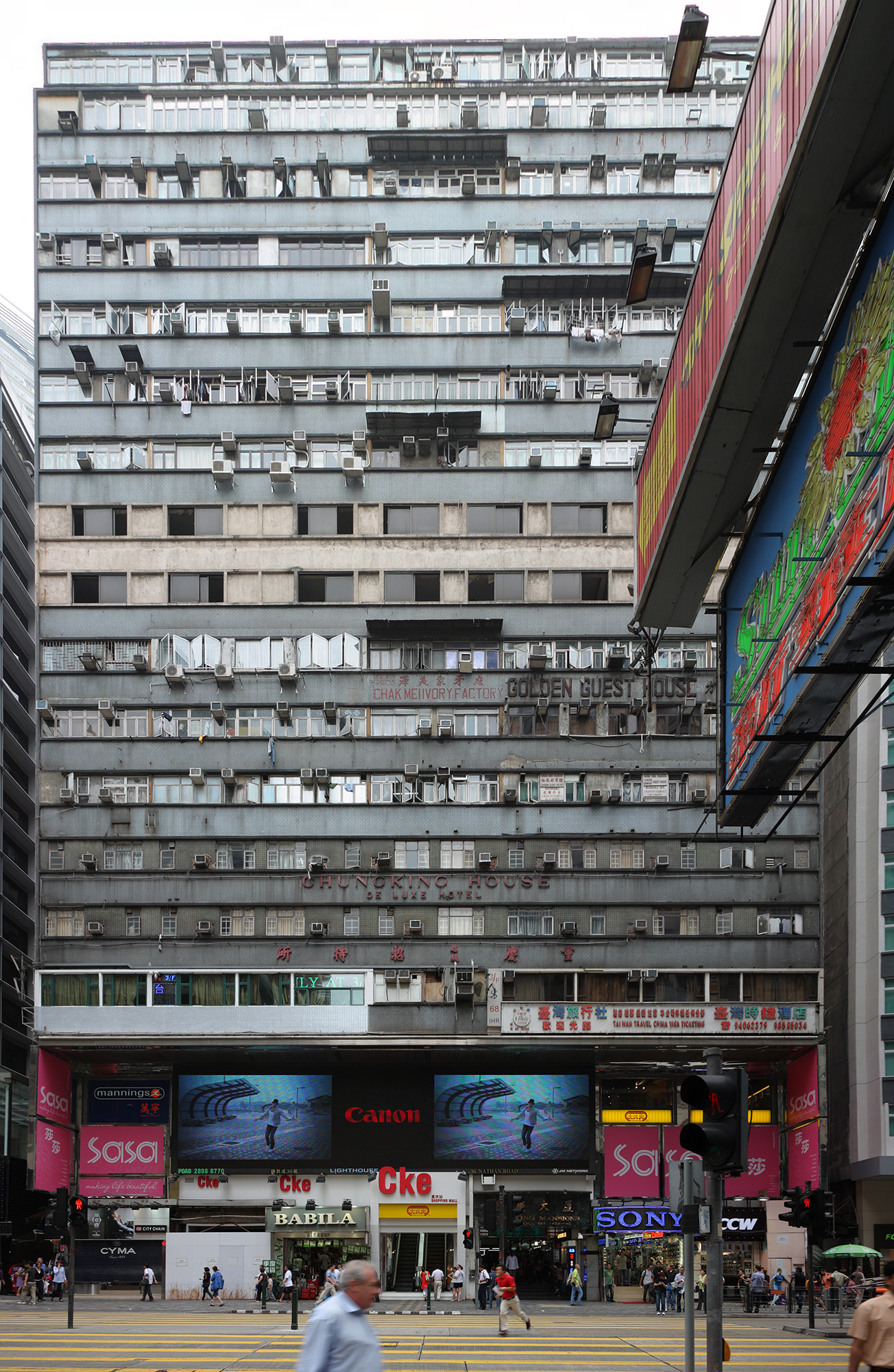 Chung King Mansions on Nathan Road, Kowloon, Hong Kong, China